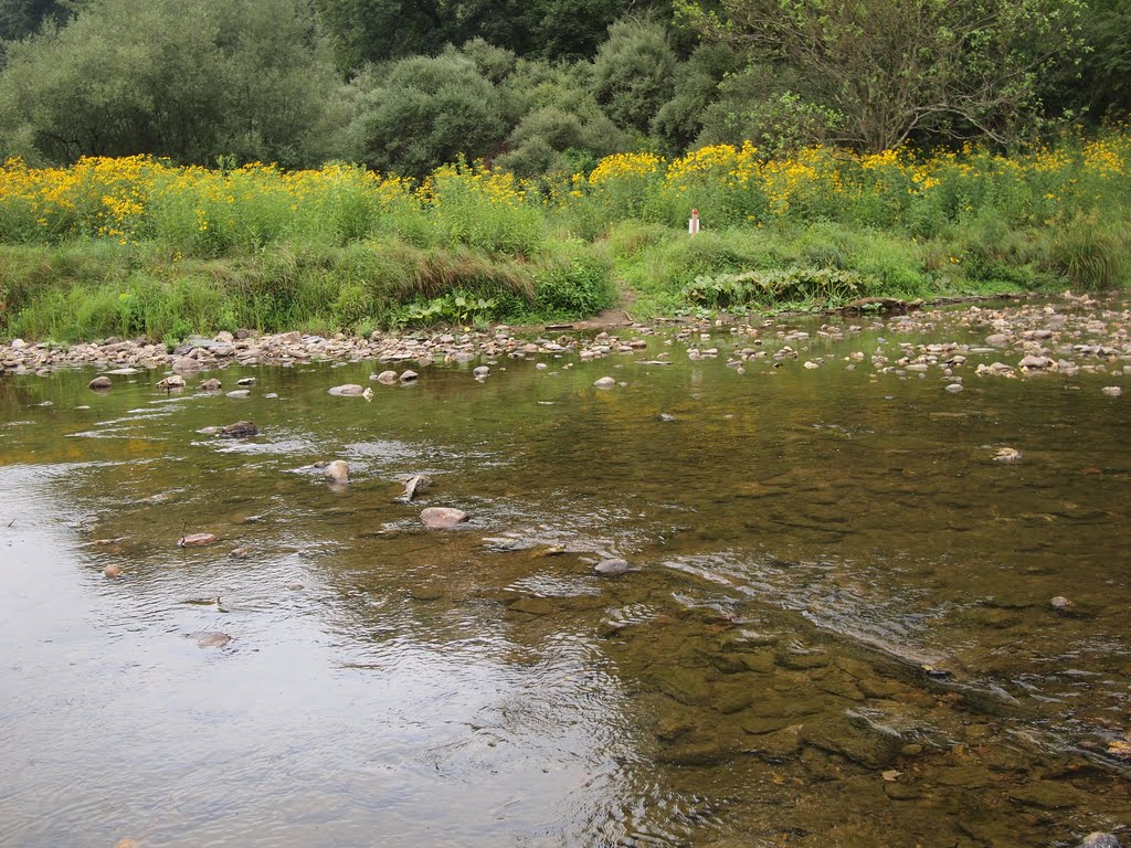 Looking across Jordan Creek to wildflowers